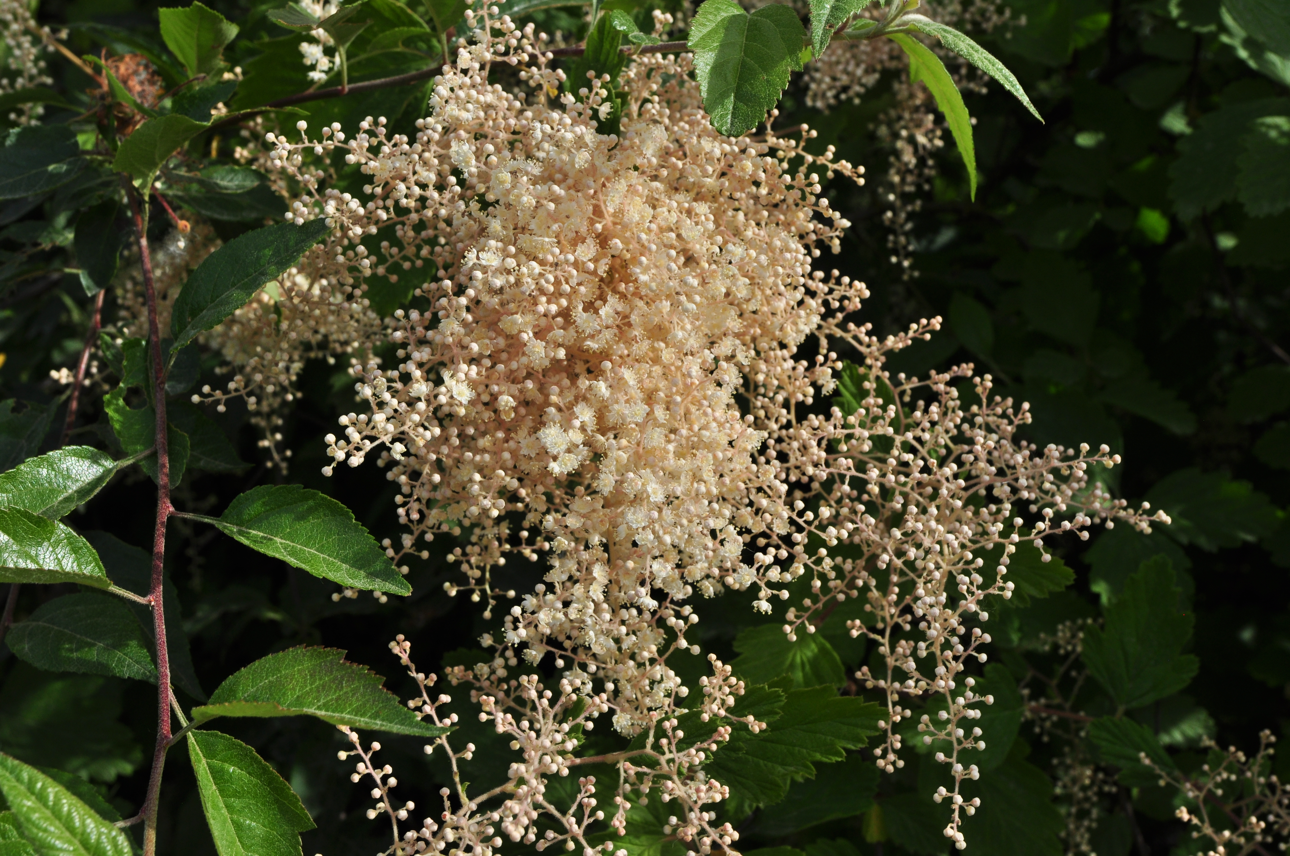 Holodiscus discolor, photographed in the Union Bay Natural Area, Seattle, Washington, U.S. Some or all of the leaves may be a different plant, probably Spiraea.